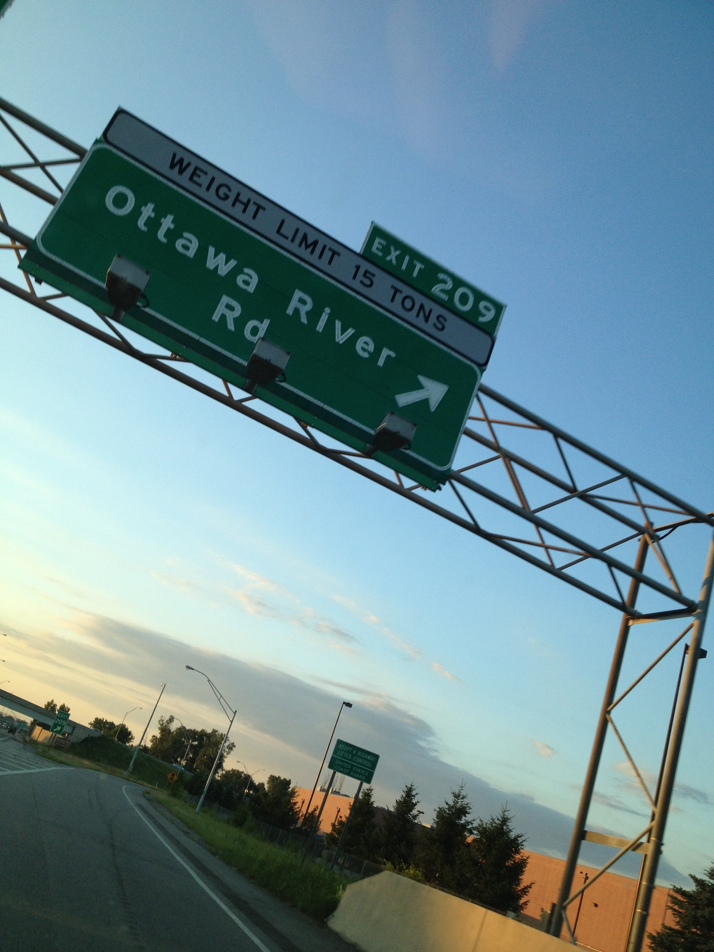 Highway sign for exit 209 on I-75 northbound, which leads into Point Place